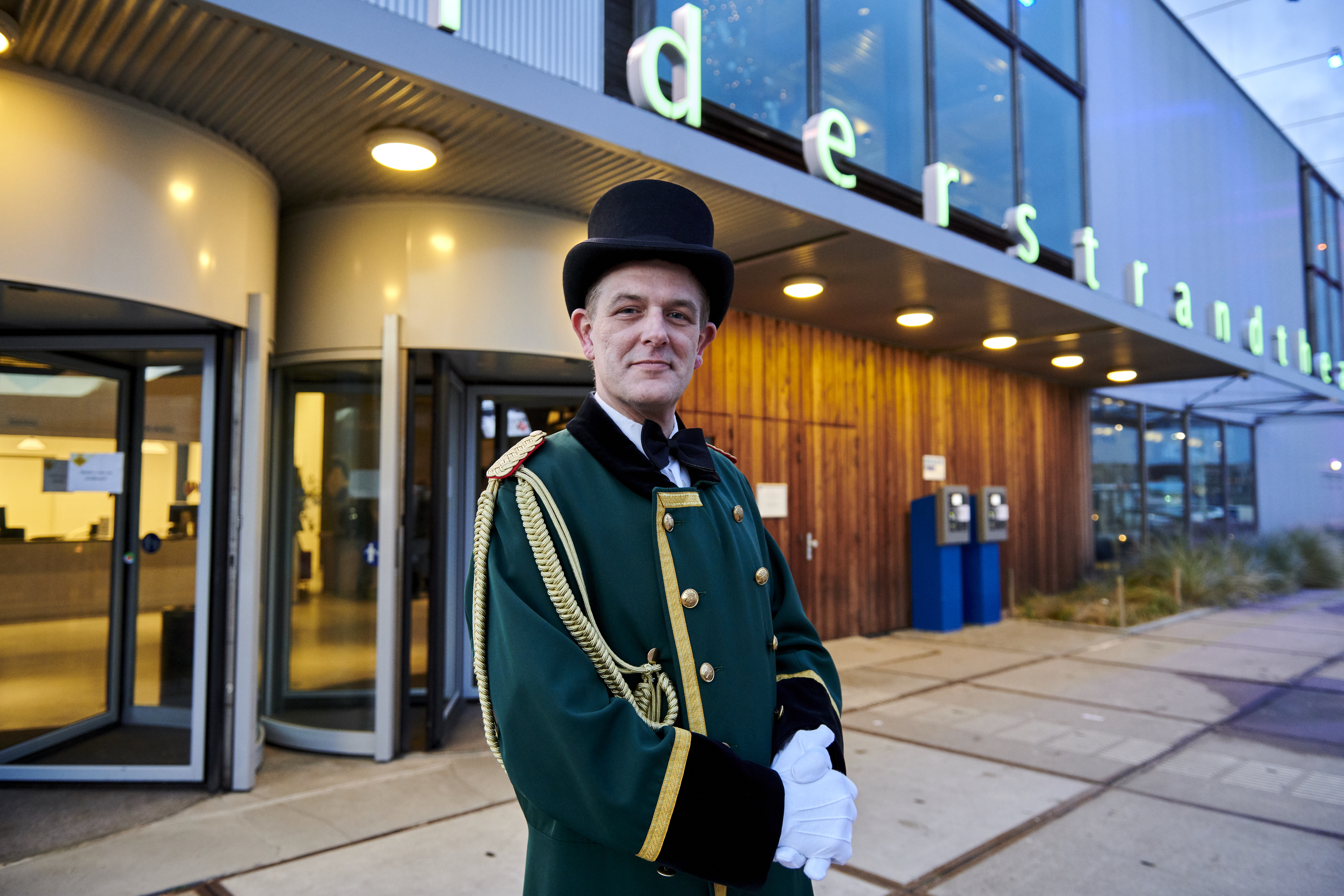 Zuiderstrandtheater Kerstborrel 2017